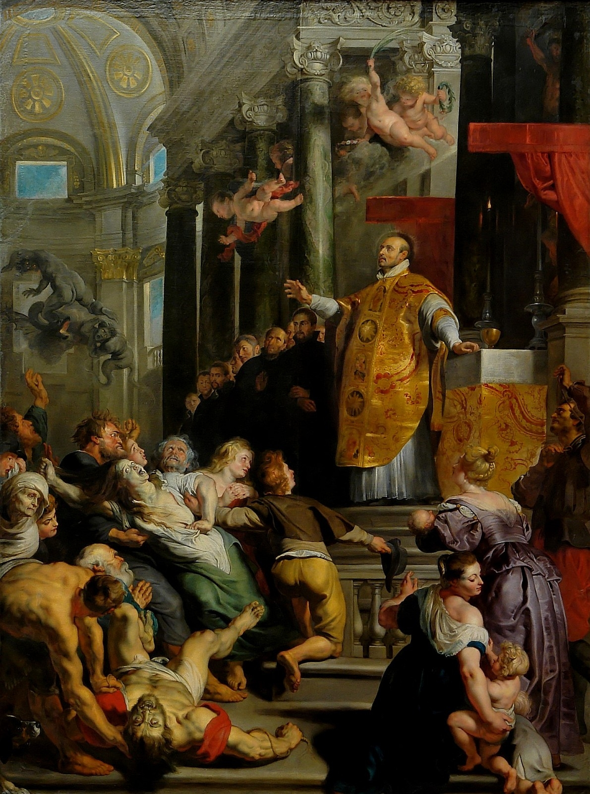 Glory of St Ignatius of Loyola by Rubens